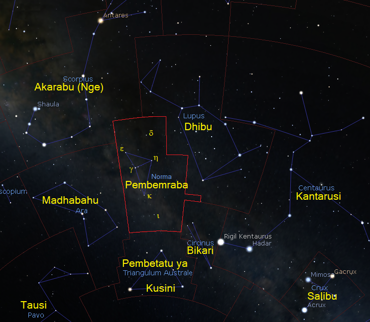 Constellation Norma as seen from Tanzania, Swahili labelled Kiswahili: Kundinyota Kipimapembe (Norma) jinsi inavyoonekana kutoka Tanzania, majina kwa Kiswahili